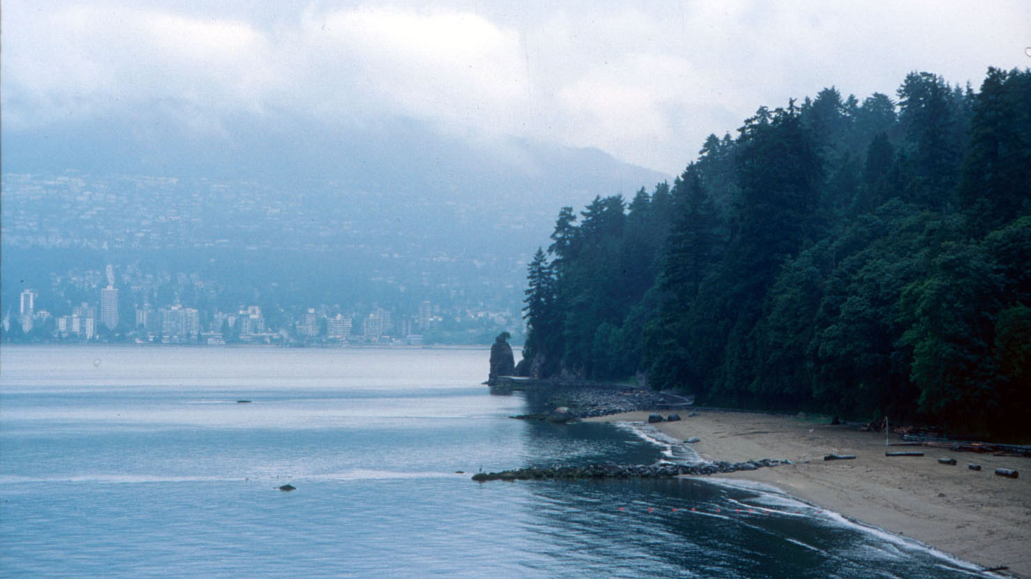 View of Stanley Park, Vancouver, BC, Canada in the rain.